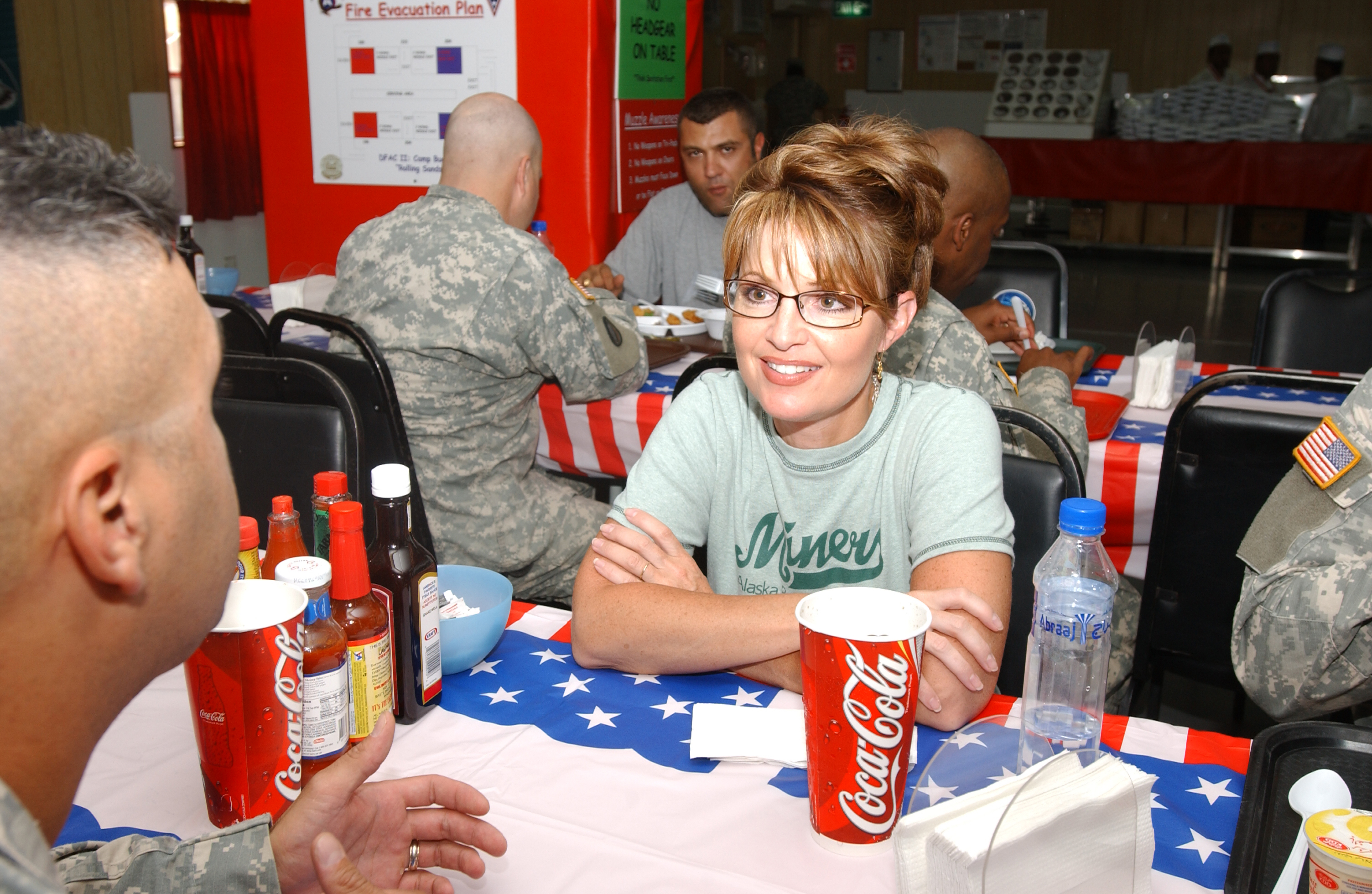 Camp Buehring, Kuwait - Alaska Governor Sarah Palin talks to Nome, Alaska, native 1st Sgt. Dewey Green. Palin visited the Soldiers of 3rd Battalion, 297th Infantry Regiment, Alaska National Guard to learn about their mission in Kuwait.